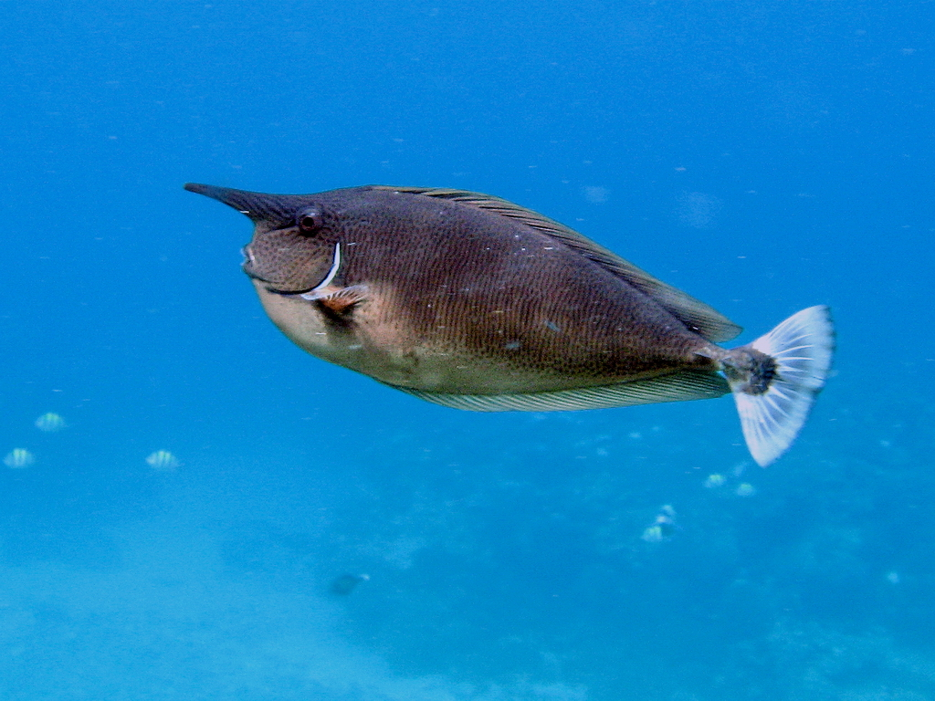 The Spotted unicornfish (Naso brevirostris) can be easily found in the coral reef area around Green Island, TAIWAN